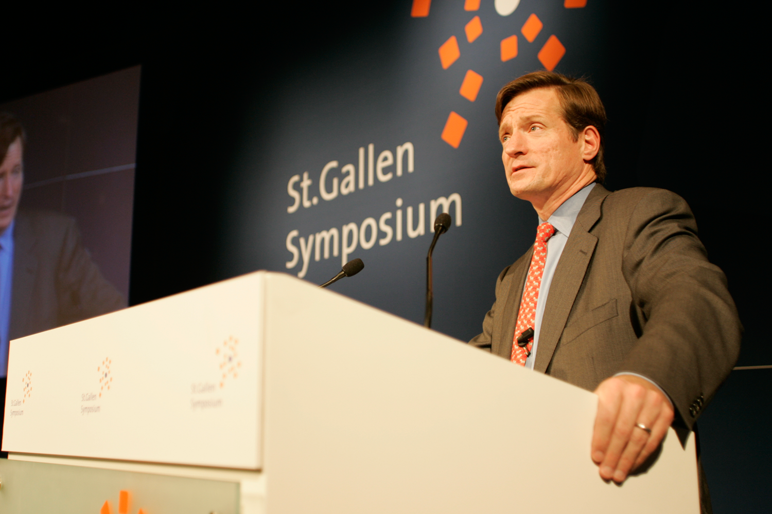 Brady Dougan in May 2009 at the 39. St. Gallen Symposium an der Universität St. Gallen